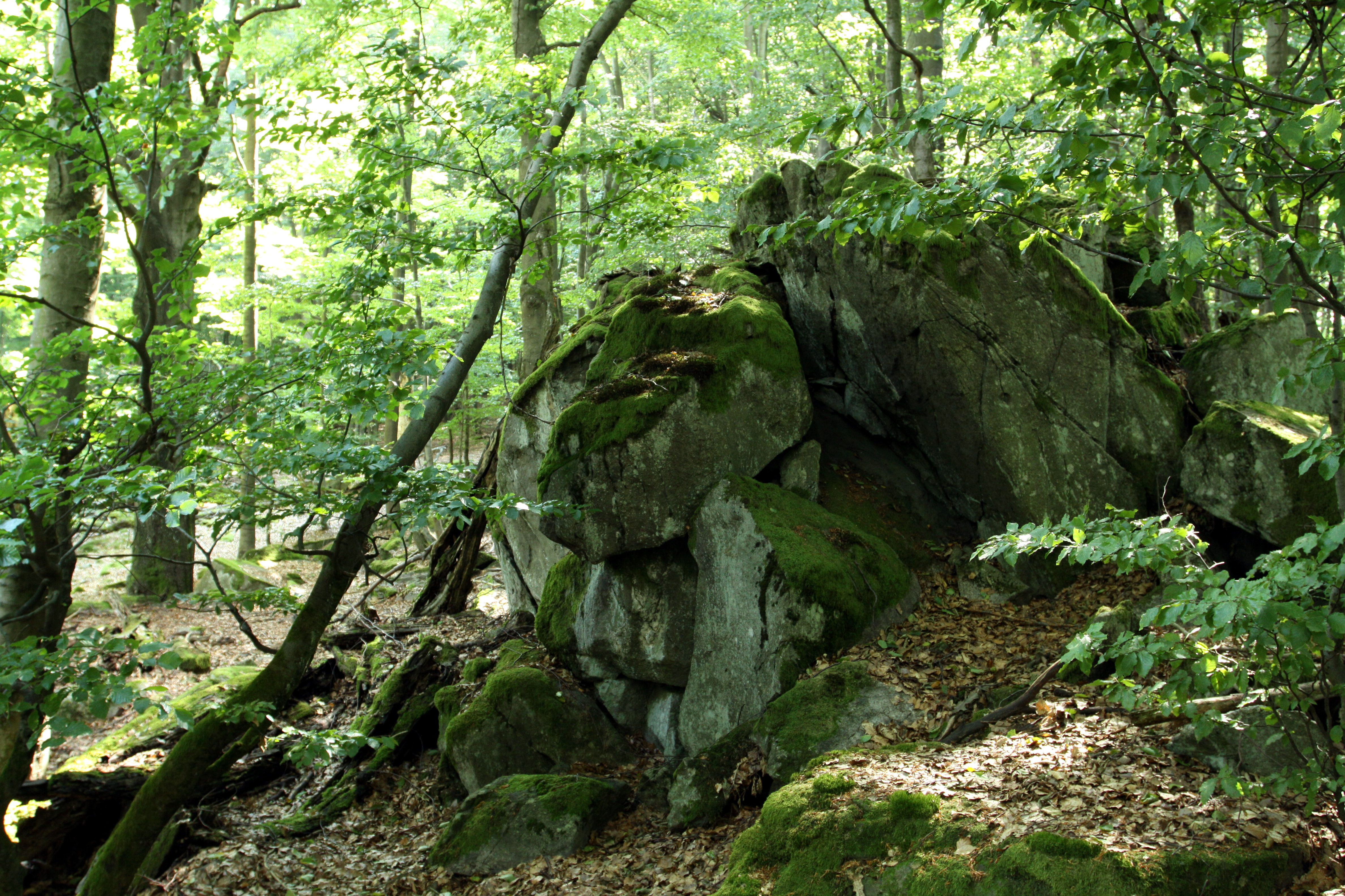 Nature reserve Pleš near Bělá nad Radbuzou in Domažlice District, Czech Republic